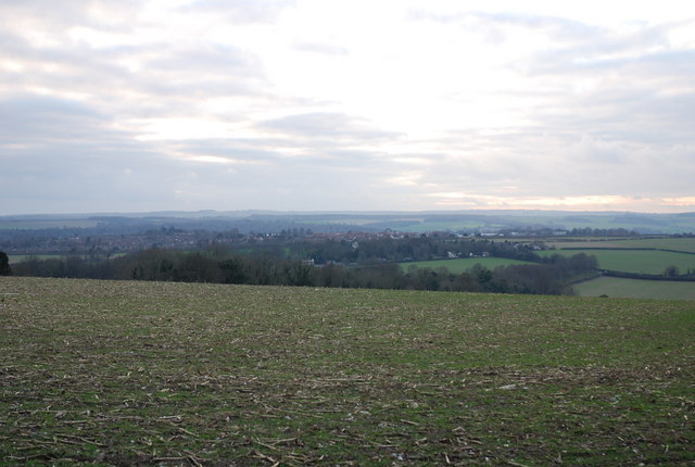 View from Blandford Camp